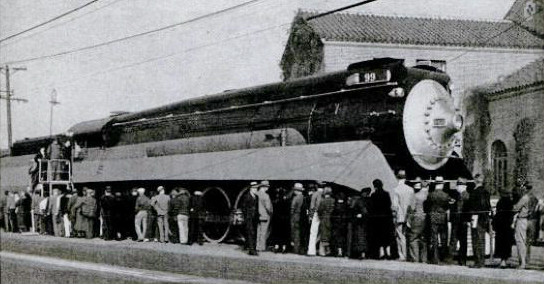 Photo of the Southern Pacific Railroad's new train, the Daylight. Since this is a 1937 photo, the locomotive in the photo should be a GS-2, as this is what the train started out with.